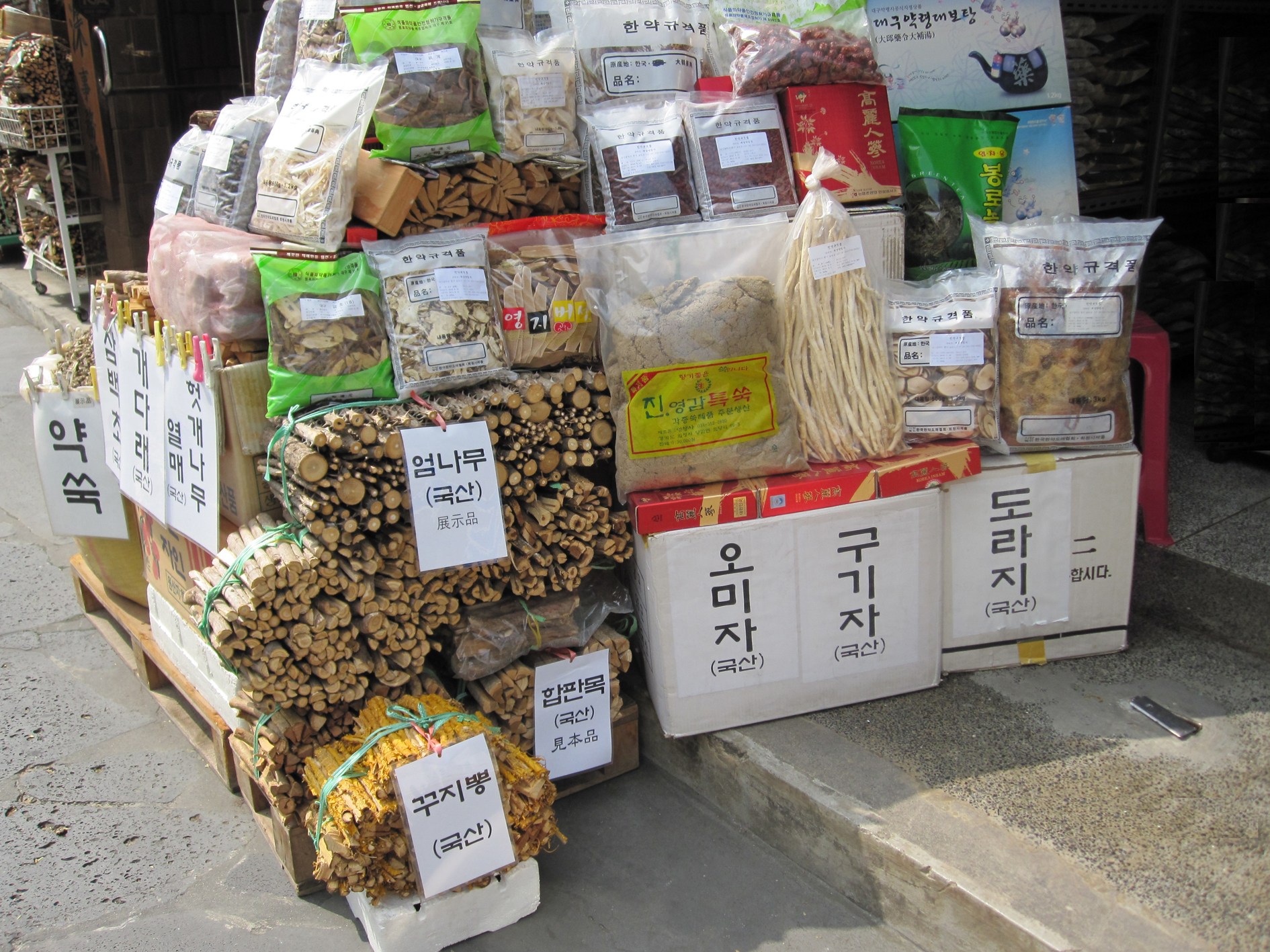 Traditional crude drugs (materia medica) in the Yangnyeongsi Medicine Market of Daegu (Korea)